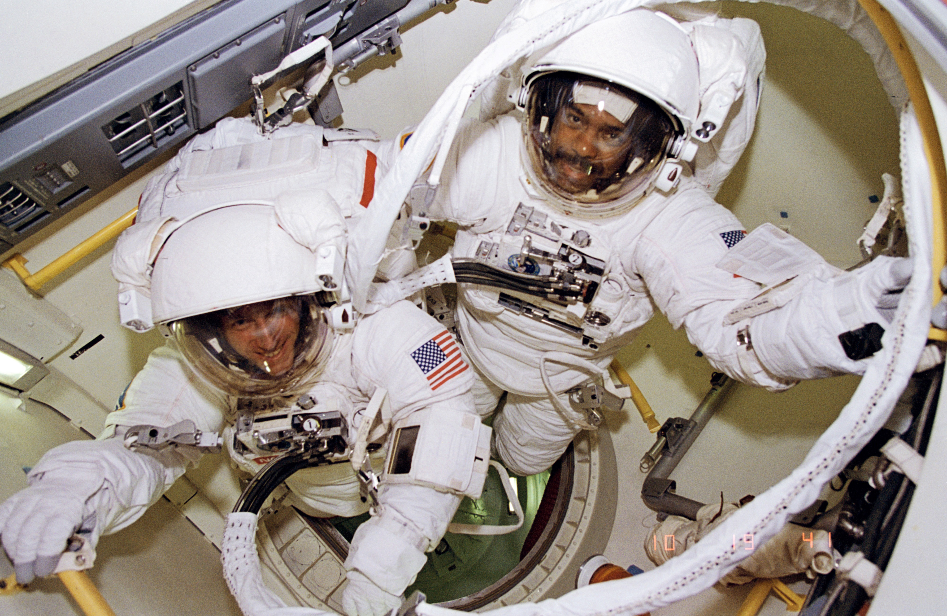 STS-63 astronauts Bernard A. Harris, Jr., payload commander (right), and C. Michael Foale, mission specialist (left), are ready to exit Discovery's airlock for a spacewalk. The pair would test new insulation to protect astronauts from the cold during extravehicular activity, but the Mission Control cut their spacewalk short after the men reported feeling very cold in their suits. On this EVA, Harris became the first African American to walk in space.